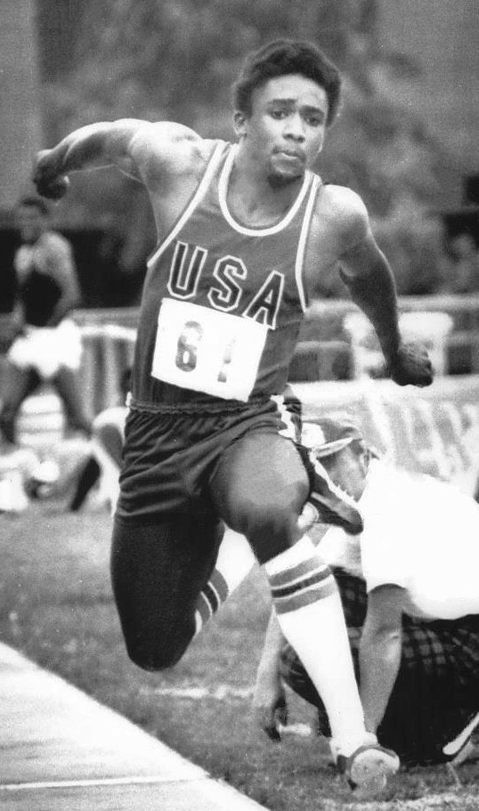 1975 Press Photo Tommy Haynes won triple jump in Pan American Trials